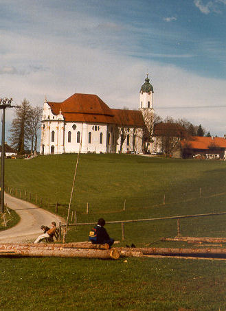 Wieskirche (Wies) in Bavaria